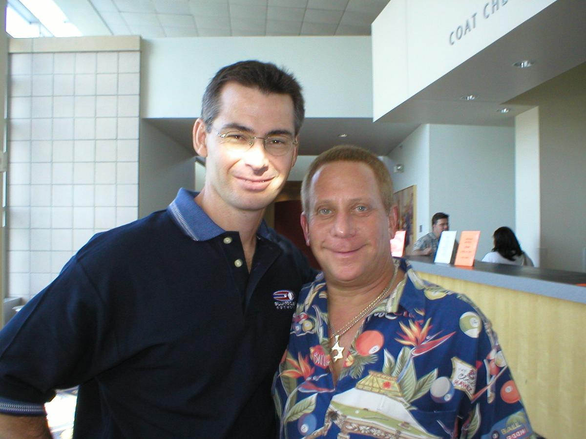 Rob Sykora of Billiard Club Network (left) and Barry Behrman of the U.S. Open 9-Ball Championships (right) at the 2004 U.S. Open.